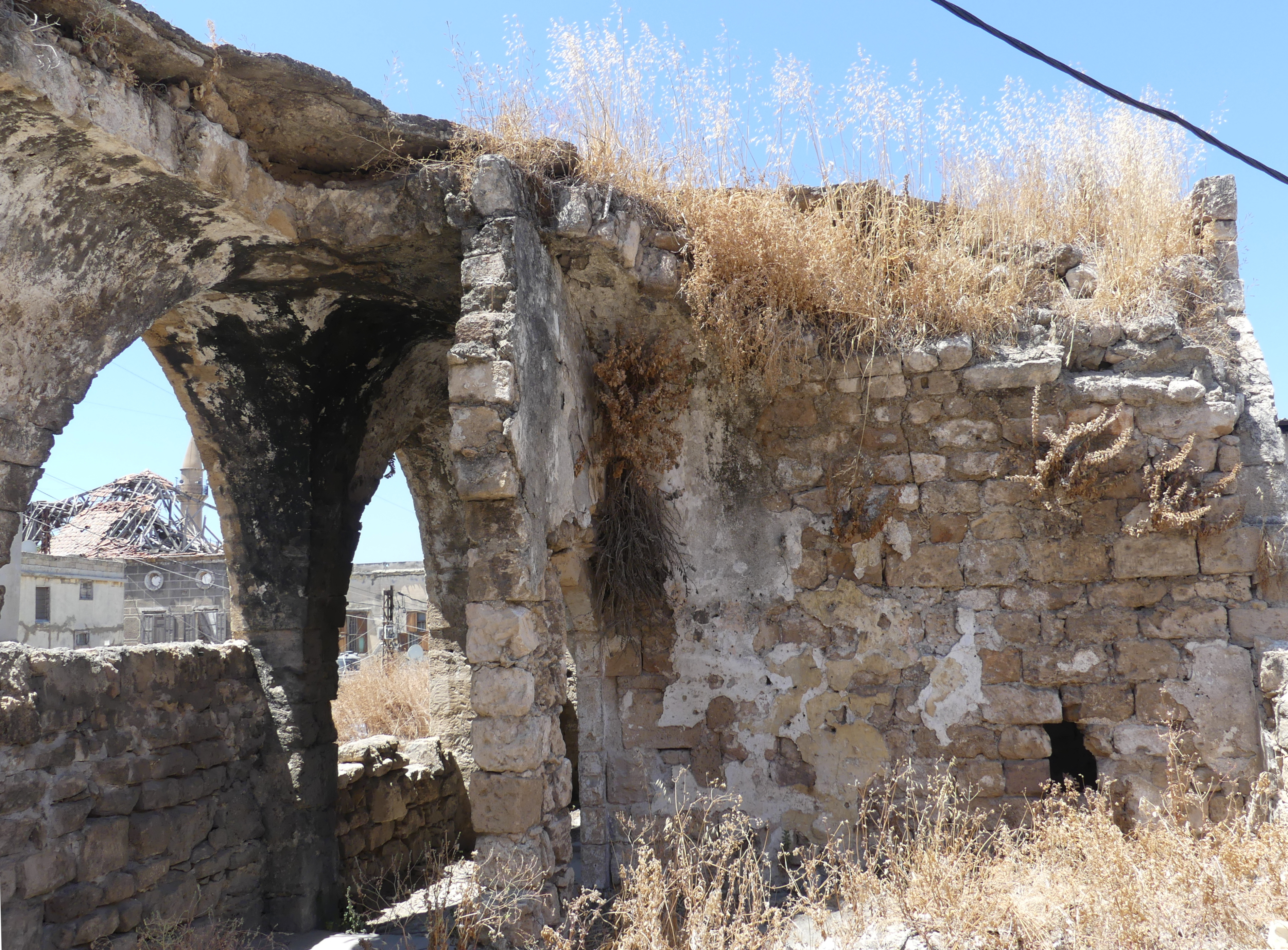 The upper gallery of the 16th century building Khan Sour in Tyre/Sour, Southern Lebanon. It was constructed as the residence Ottoman Emir Younes Al-Maani and "subsequently became the property of the Franciscan fathers." The building was later used as a garrison and transformed into a Khan, "traditionally a large rectangular courtyard with a central fountain, surrounded by covered galleries". French troops used the building during both World Wars as a base. In 1982, its second storey - seen here - was heavily damaged by Israeli bombardment. The ruins are still standing though in the centre of today's Souk marketplace area and are also known as Khan Al-Ashkar.